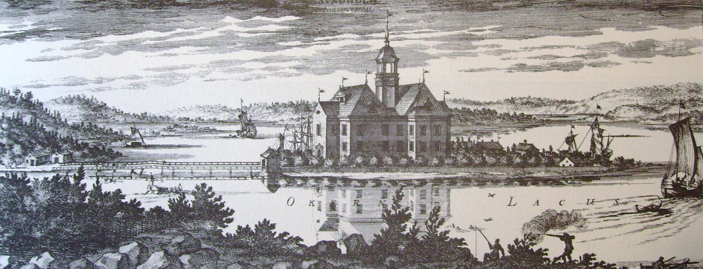 Picture of Sundholm in Västergötland